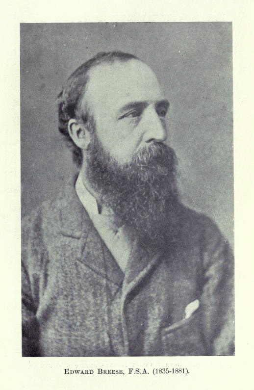 Edward Breese (1885-1888) Welsh antiquarian